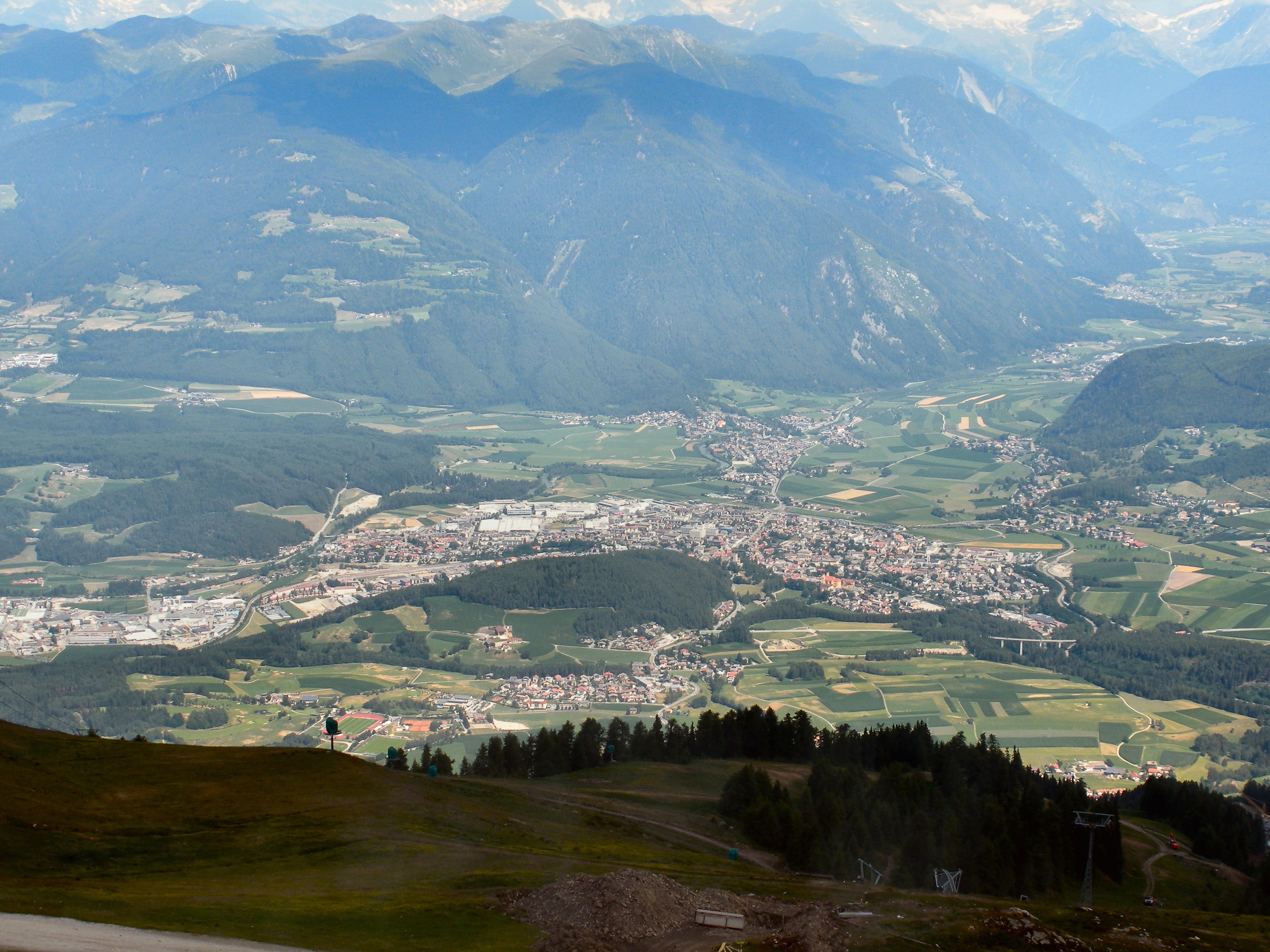 View of Bruneck as seen from the Kronplatz (South Tyrol, Italy)